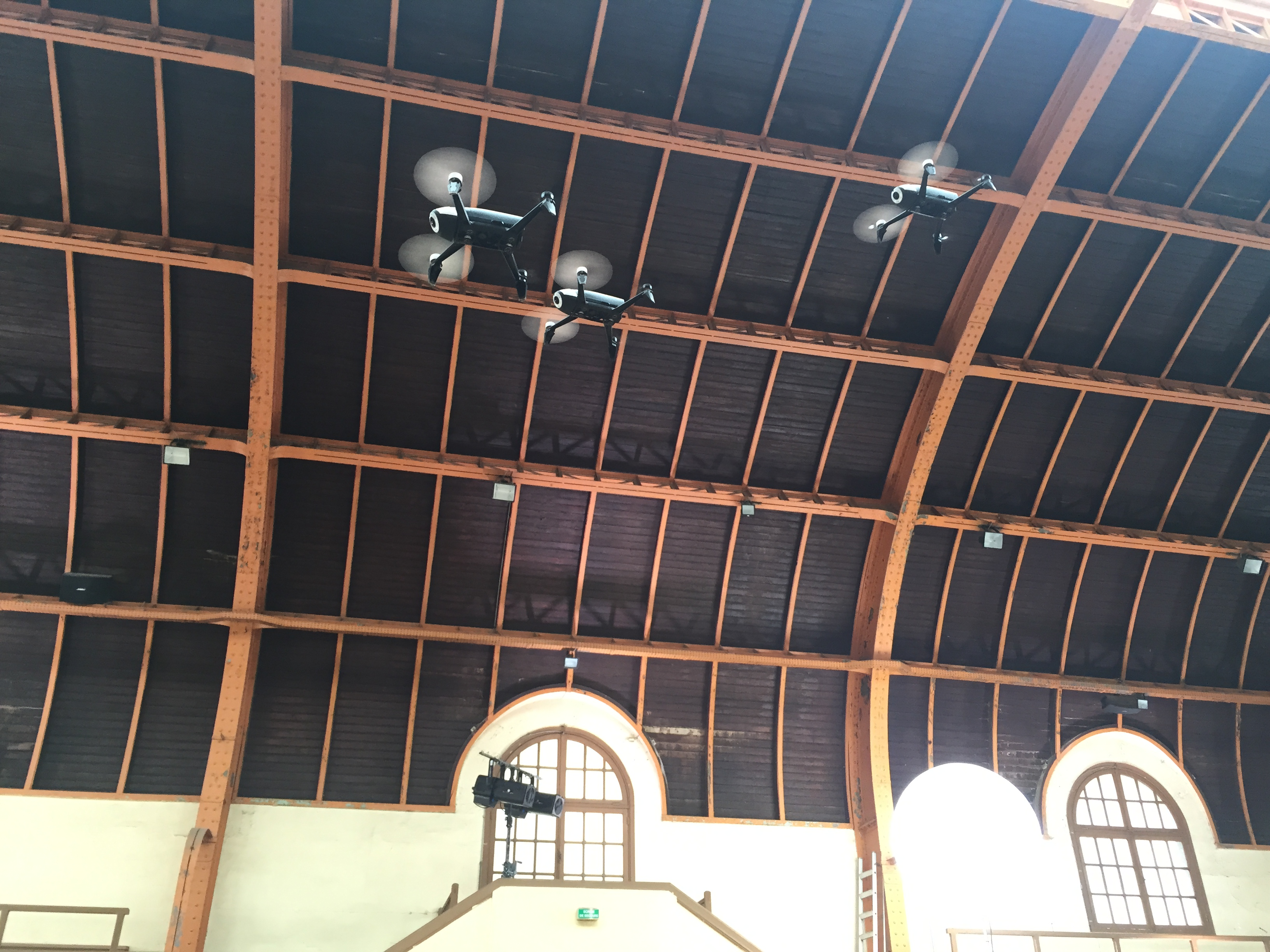 Suaqdron of drones